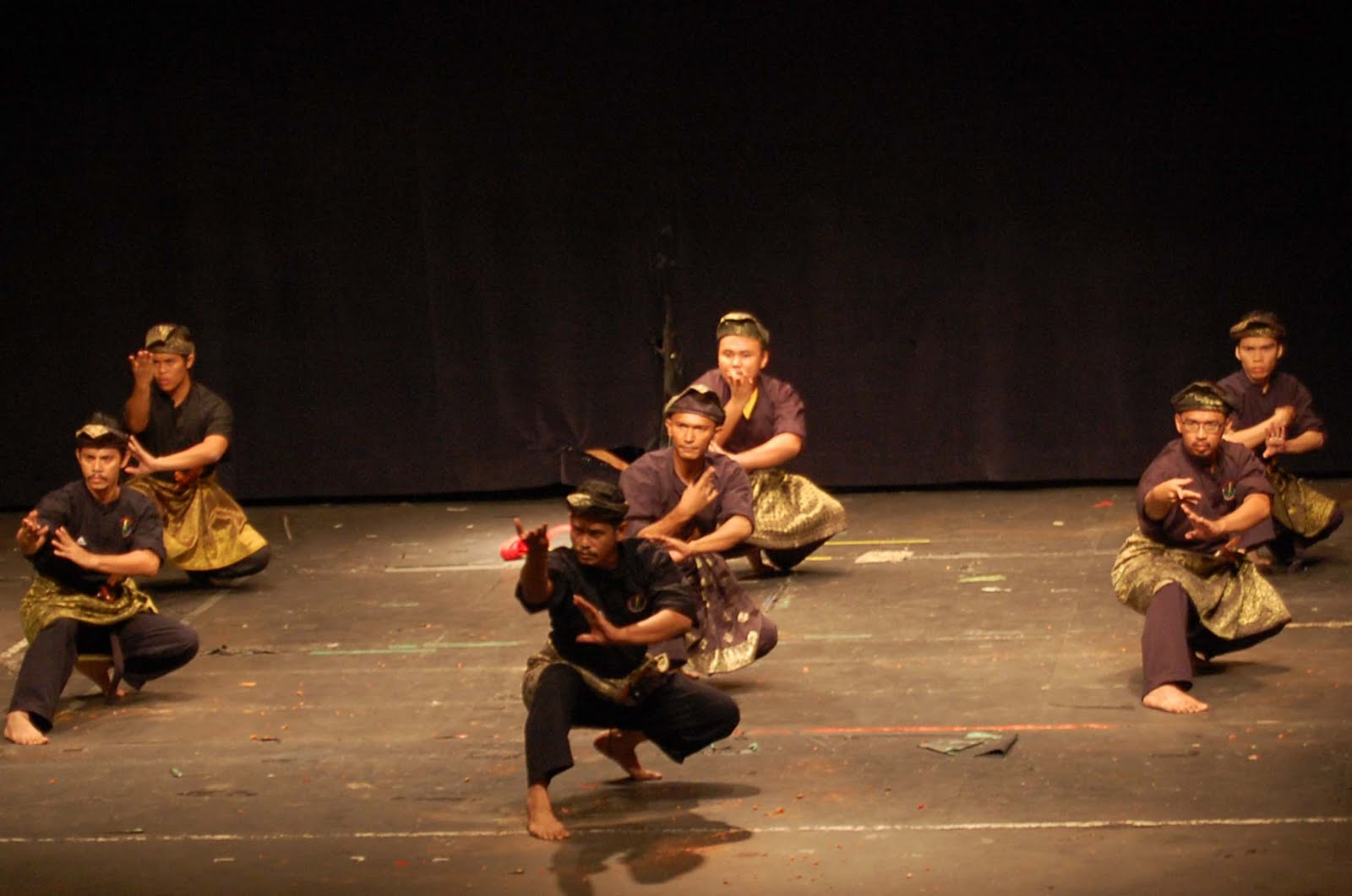 Silat Melayu Keris Lok 9 practitioners performing. Português do Brasil: Silat Melayu Keris Lok 9 praticantes realizando.